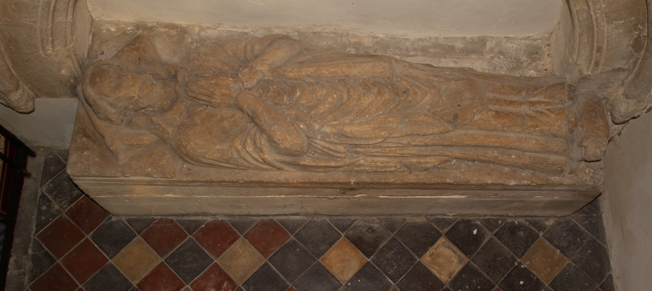 14th-century stone recumbent effigy of a priest in the chancel of St Mary's parish church, Upper Heyford, Oxfordshire